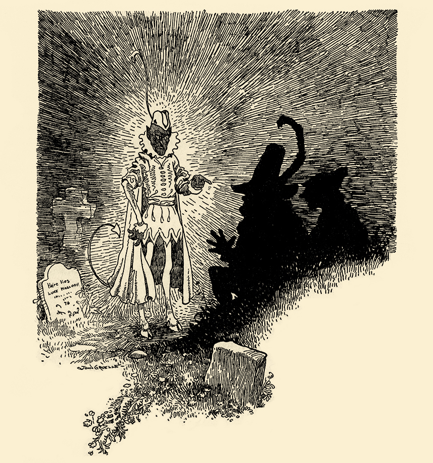 “Stupid Devil,” cried the soldier, “it won’t do!. . .” THE GRAVE-MOUND. Grimm’s Fairy Tales. Translated from the German By Margaret Hunt. Illustrated By John B. Gruelle. Cupples and Leon Company: New York. Ca 1914.